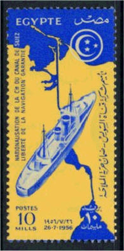 Nationalization of Suez canal 26-7-1956